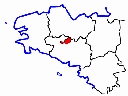 Description: Map for localisazion of cantons of Bretagne region in France Source: made by Hervé Tigier in april 2005 from another large map (published in 1990)